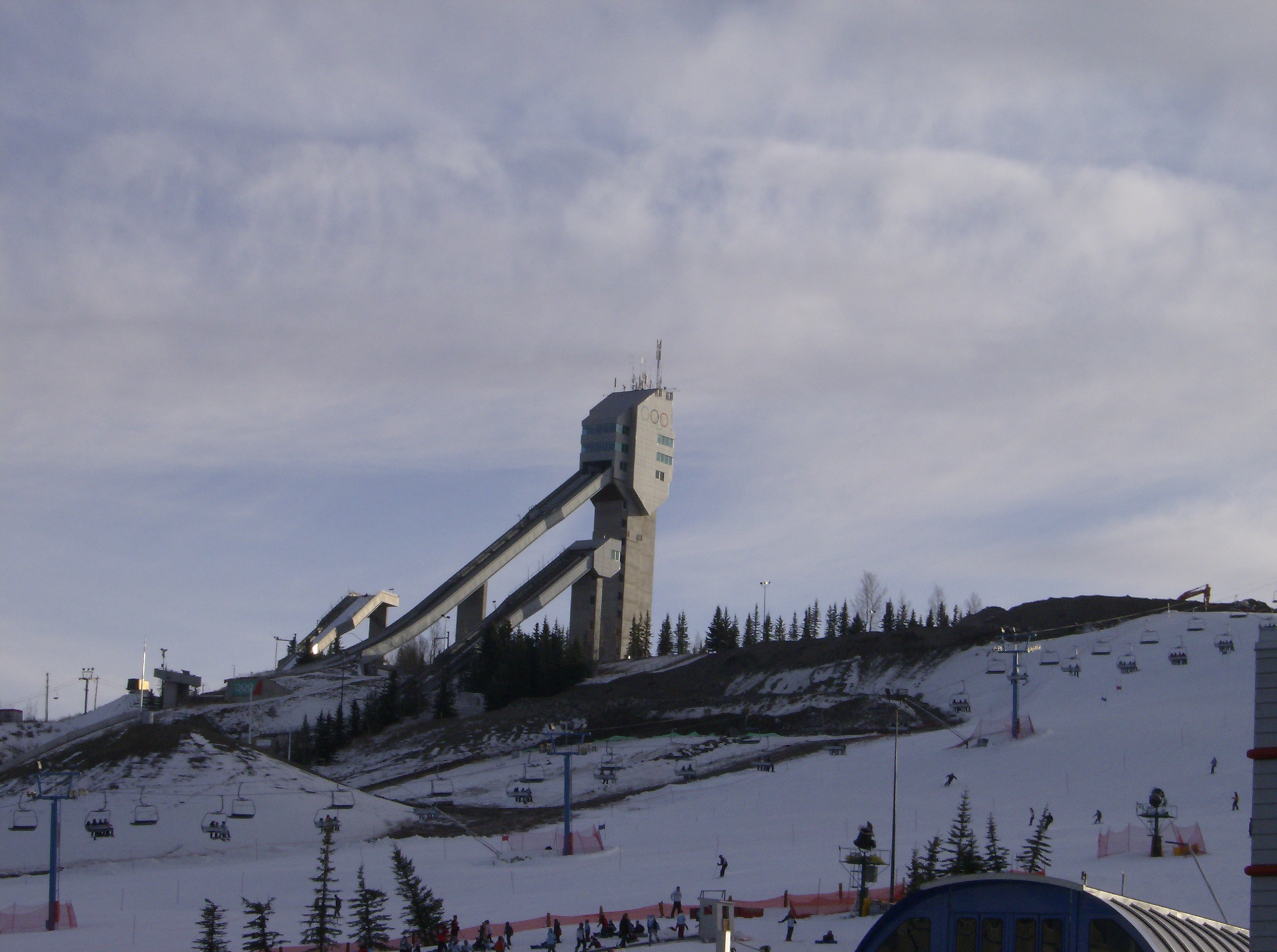 Canada Olympic Park in Calgary, Alberta, Canada.